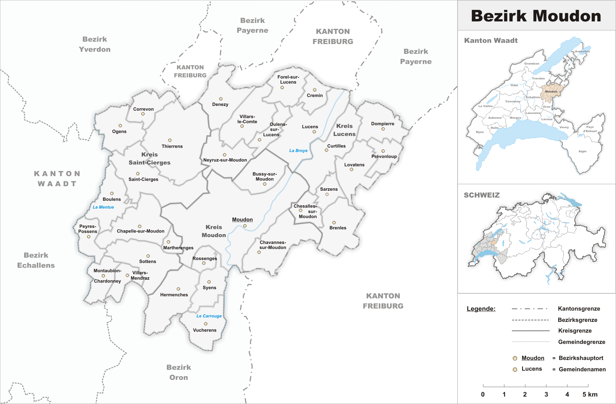 Municipalities in the district of Moudon